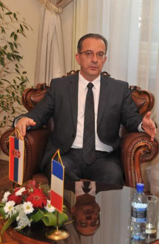 Проф. др Зоран Перишић градоначелник Ниша у Градској кући.